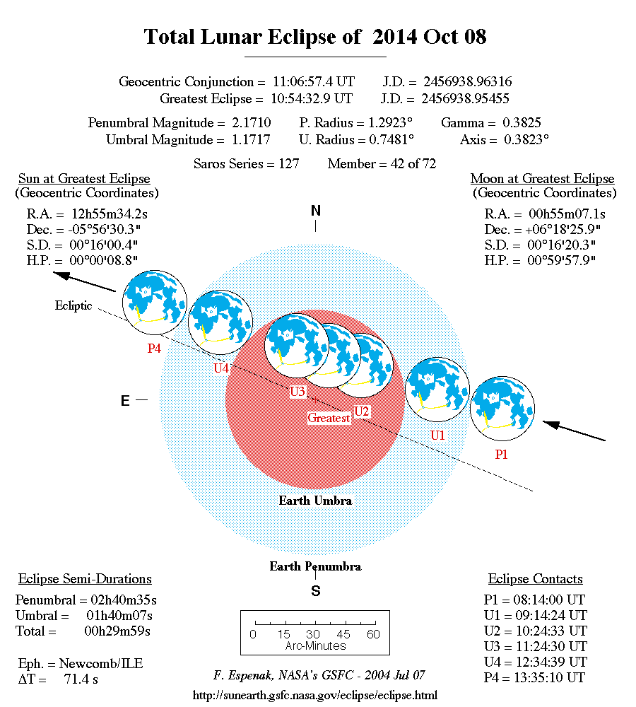 Sketch of the 2014-10-08 lunar eclipse.